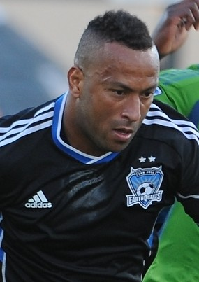 July 13, 2013 - Santa Clara, CA. The San Jose Earthquakes defeated the visiting Seattle Sounders FC 1-0. Photo by Joe Nuxoll / .